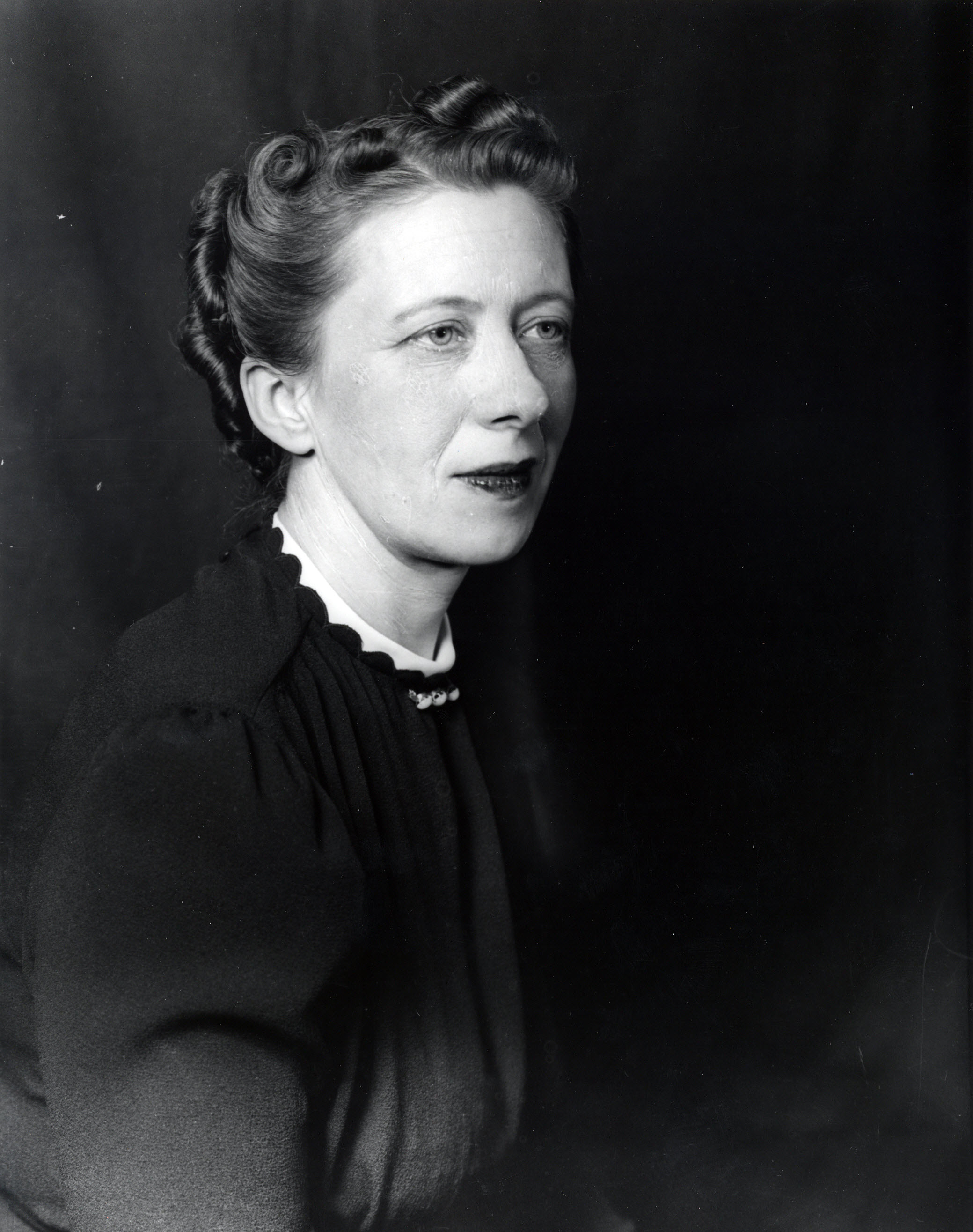 Former Congresswoman Jessie Sumner of Illinois.